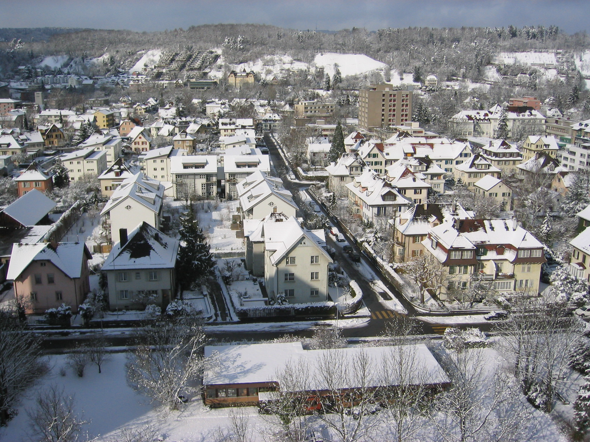 Brugg, Aargau, Switzerland